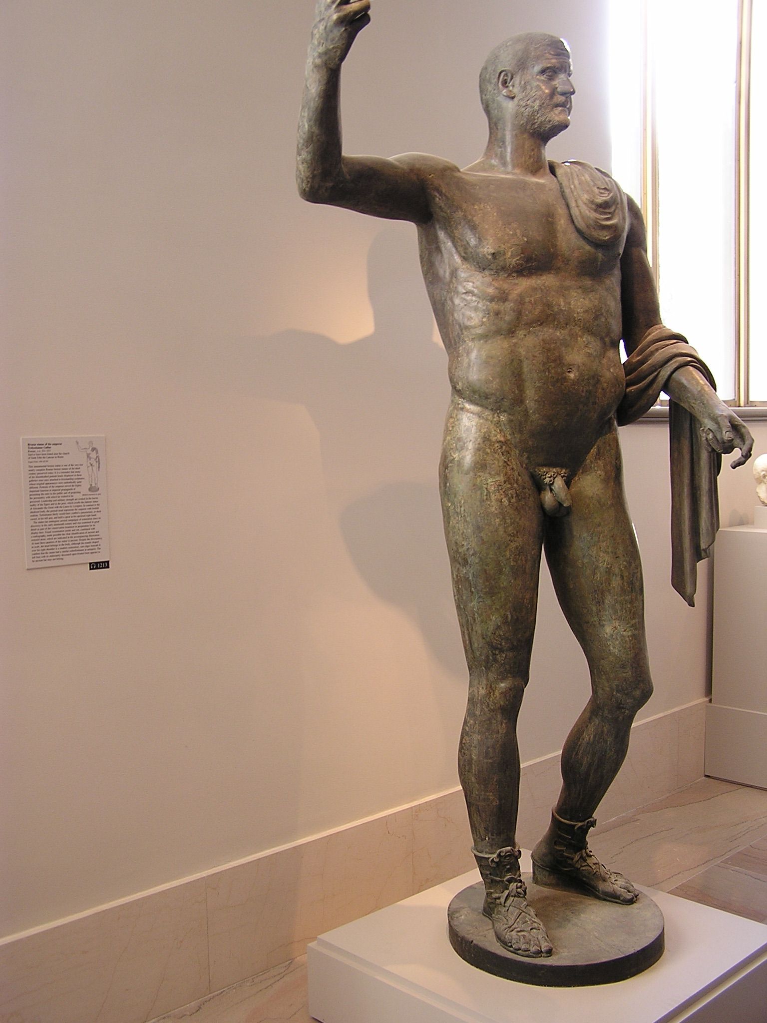 Trebonianus Gallus from the time of his reign as Roman Emperor (251-253 AD), the only nearly-complete large-scale Roman bronze to survive from the 3rd century. The statue is 2.413 meters in height. Surfaced in the early 19th century, said to have been found at Basilica of St. John Lateran in Rome. There is a contrast between the style of the body, which recalls the Alexander the Great of Lysippos, and the more realistic head. The original is thought to have held a parazonium in the left arm, and a spear in the right hand. At least ¾ of the work is original. Reconstructed parts include the base, the right foot, the mantle (based on evidence), the left upper arm, part of the upper surface around the right shoulder and biceps, the groin, and parts of the right torso. It appears that the left foot may originally be from another ancient statue. Photographed at the Metropolitan Museum of Art in New York City. Contextual information derived from museum placard and their website.